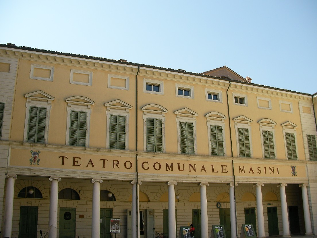 The theater Angelo Masini to Faenza